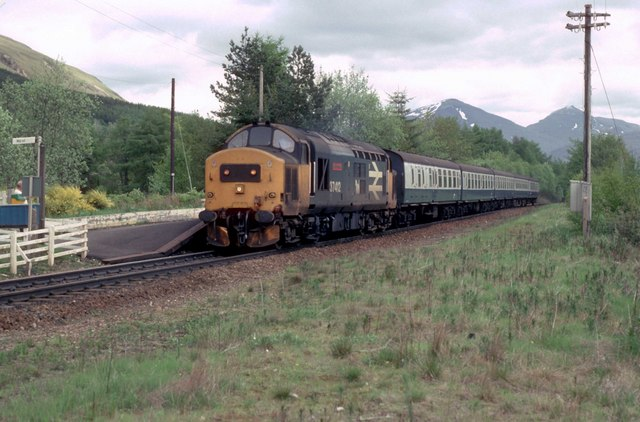 Tyndrum Lower railway station. 37412 stands at the station with a service from Glasgow Queen Street to Oban.